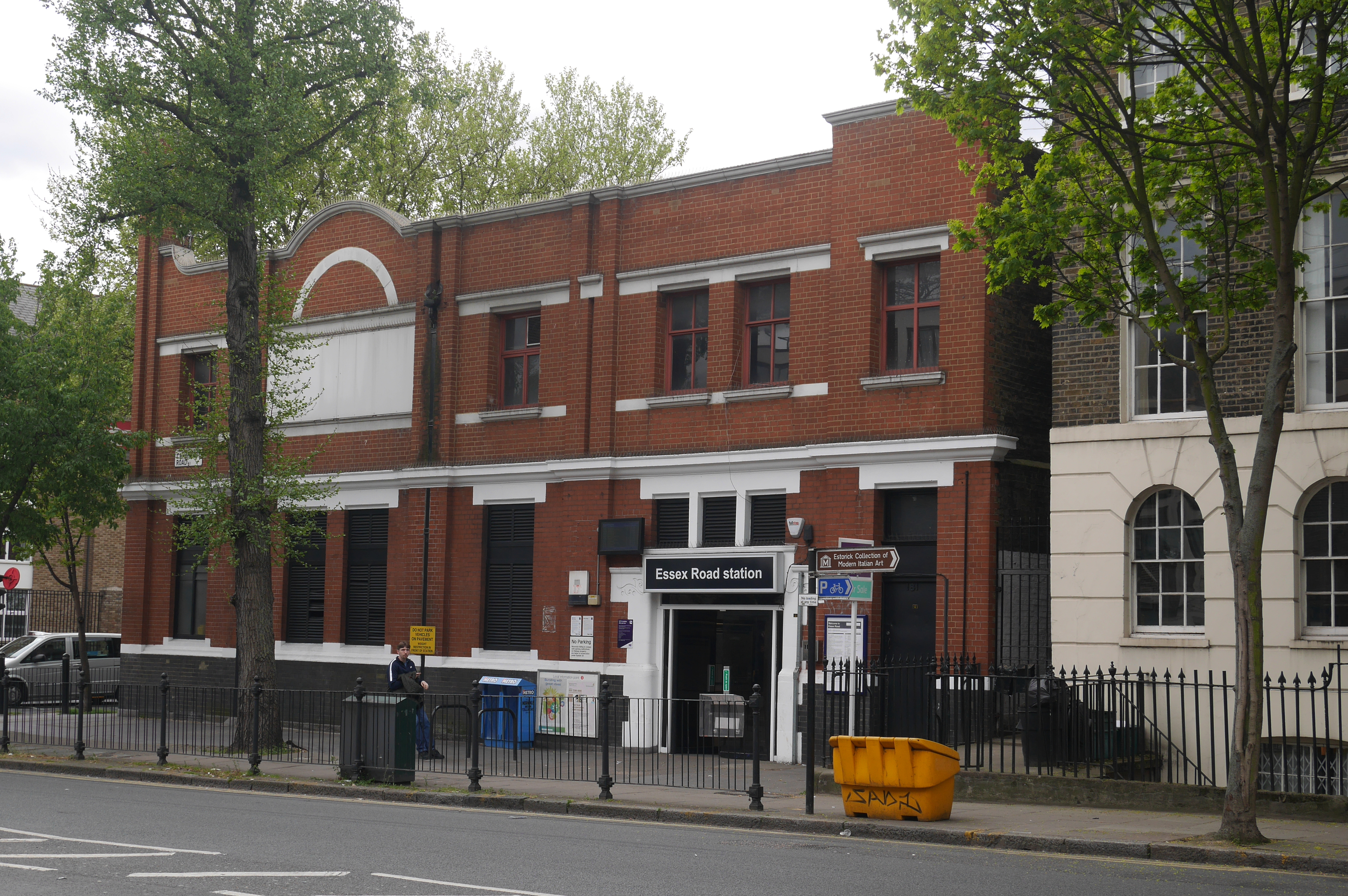 The station building of Essex Road station.